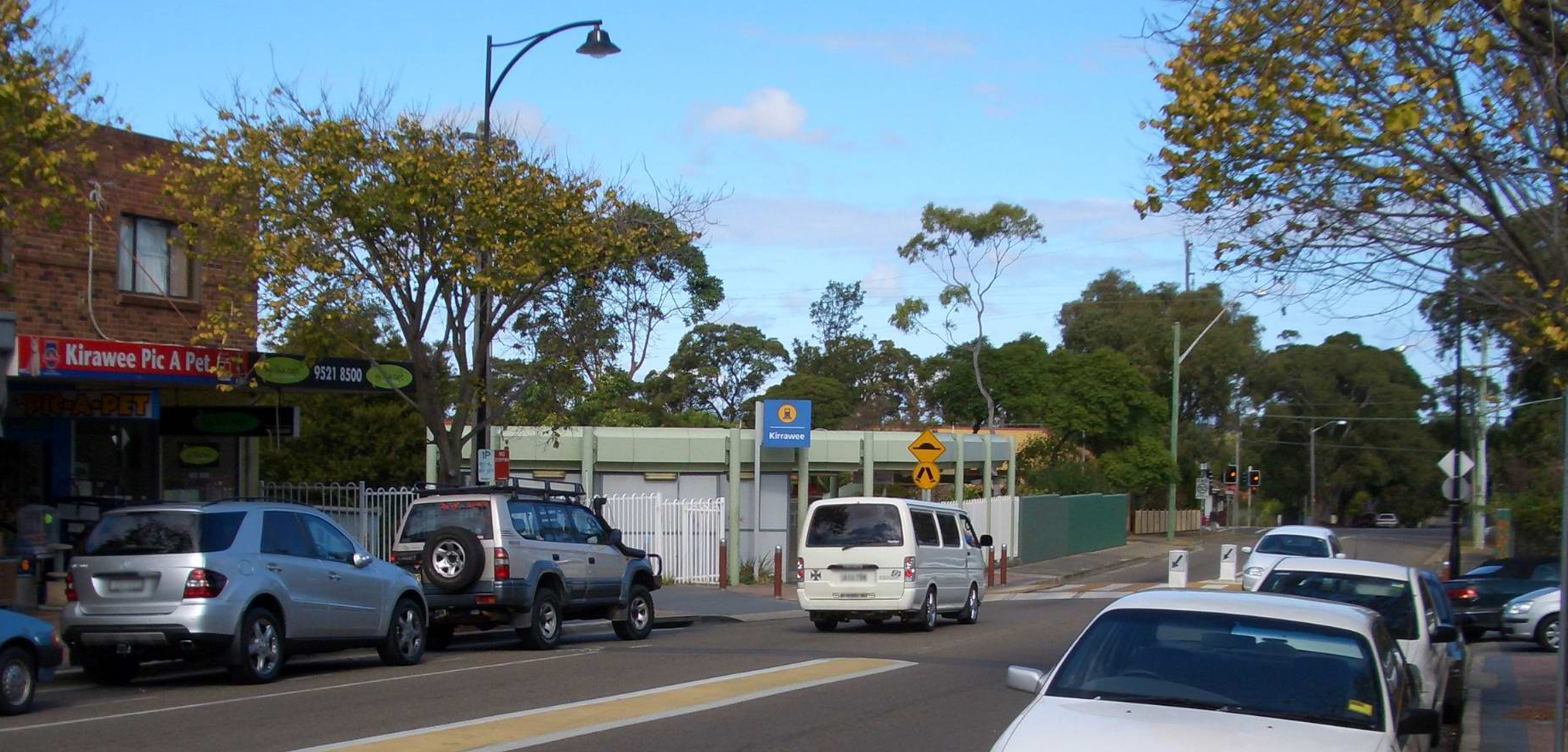 Kirrawee Station taken from main shopping village